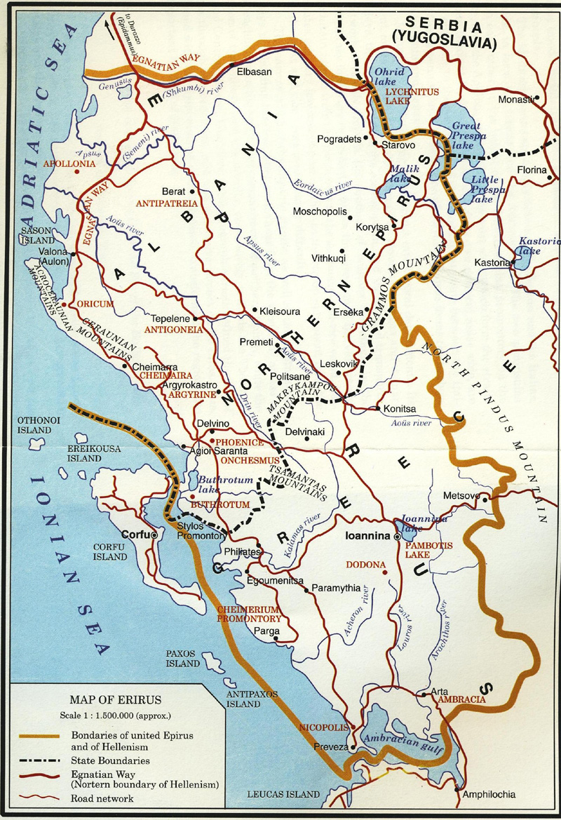 The geographical region of Epirus in Albania and Greece